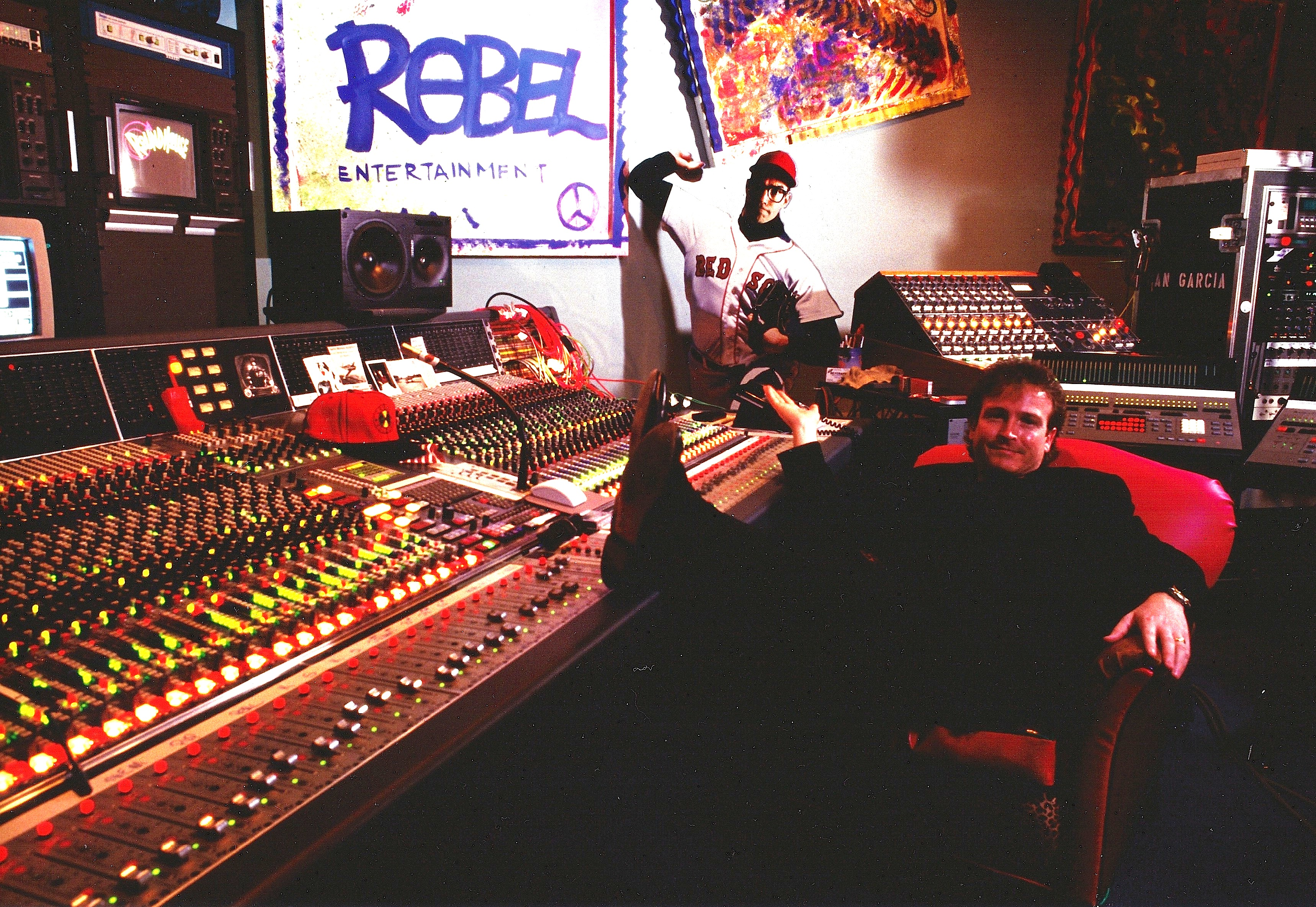 Benny Hester in his studio, 1992 Universal Studios, FL